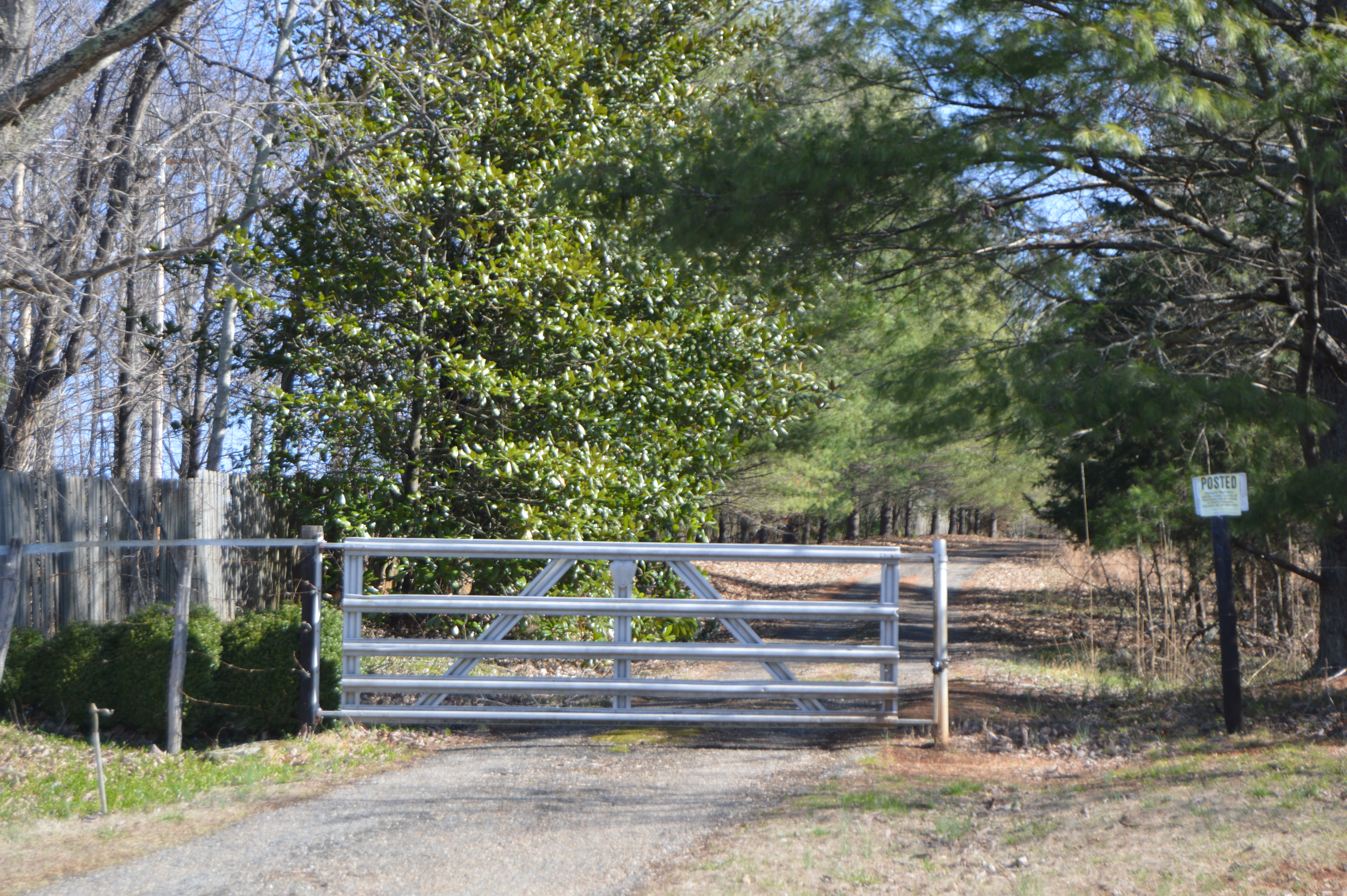 The gate to the Hope Dawn estate, located on Abert Road north of Lynchburg in Bedford County, Virginia, United States. The estate is listed on the National Register of Historic Places.